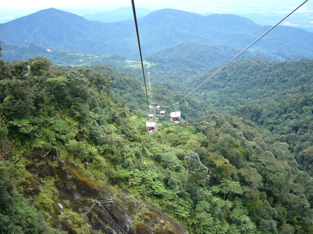 Author Shahnoor Habib Munmun